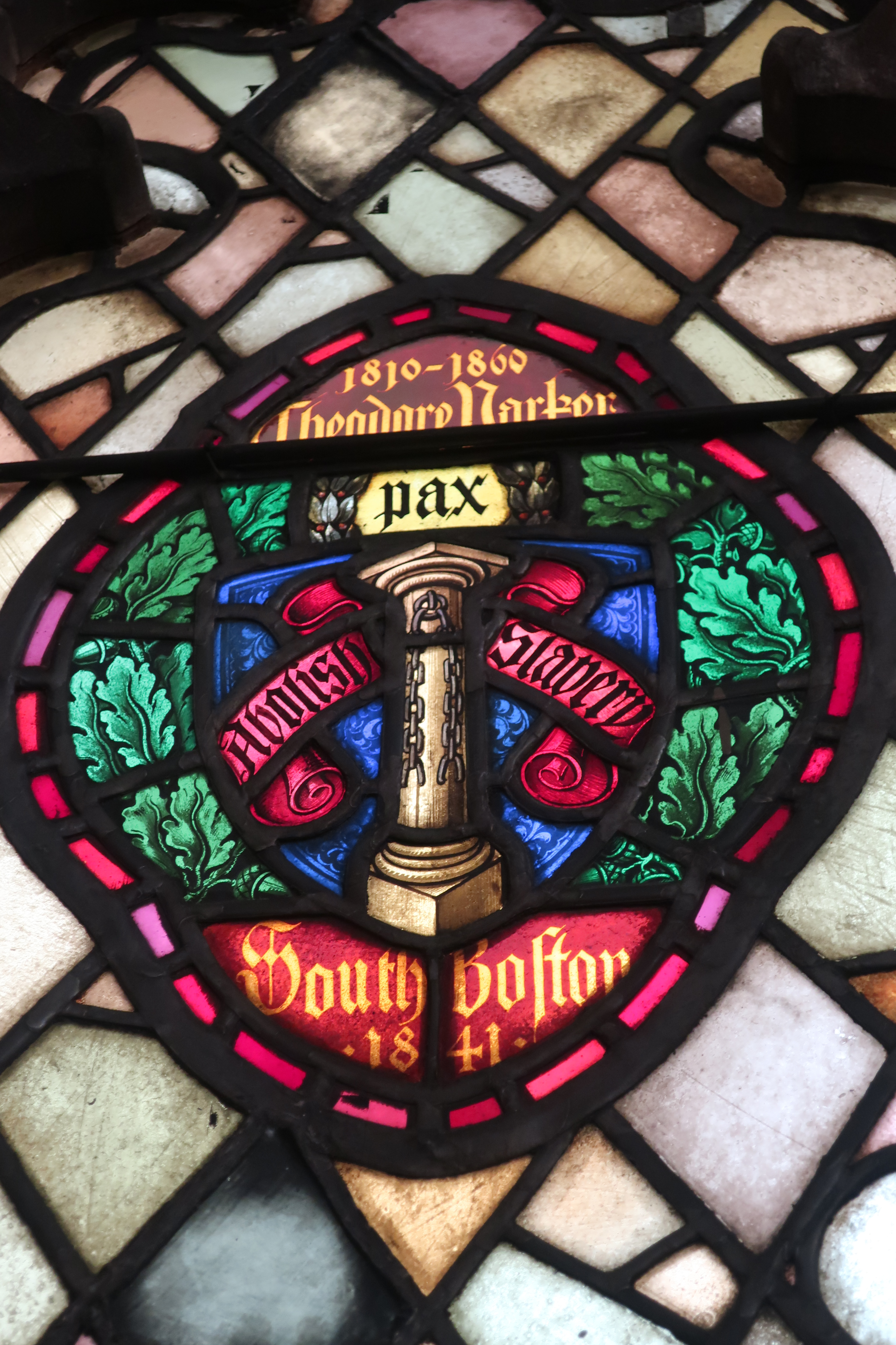 Zettler stained glass in UU Church of Lancaster PA, design by W. H. Ritter, medallion detail honoring abolitionist Theodore Parker, with inscriptions